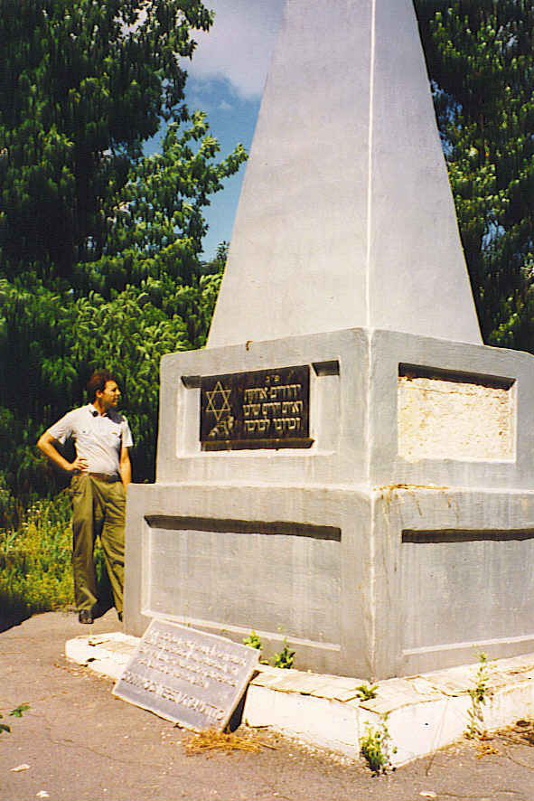 Monument at the Nazi mass killing site in Derazhnia. Approximately 4,000 Jews and Roma (Gypsies) were shot here on Sept. 20, 1942. Photographed 1995.